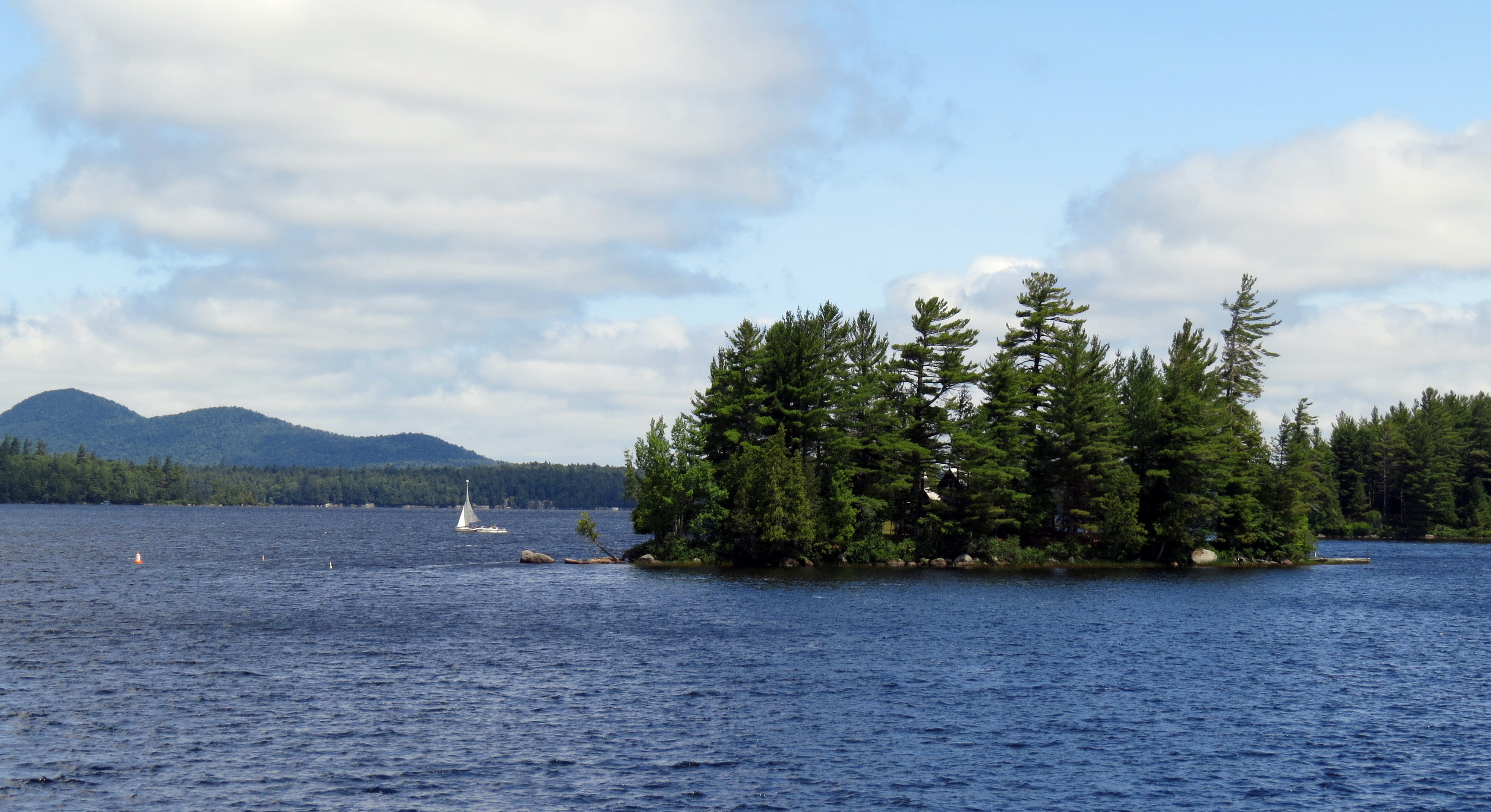 Looking north on Raquette Lake in the towns of Long Lake and Arietta, both in Hamilton County, New York